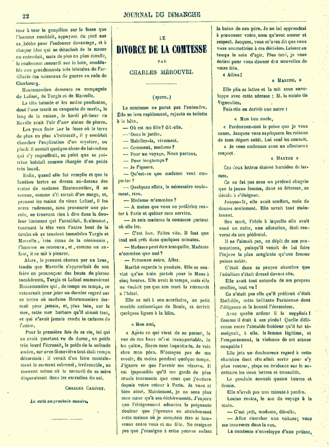 JDD55